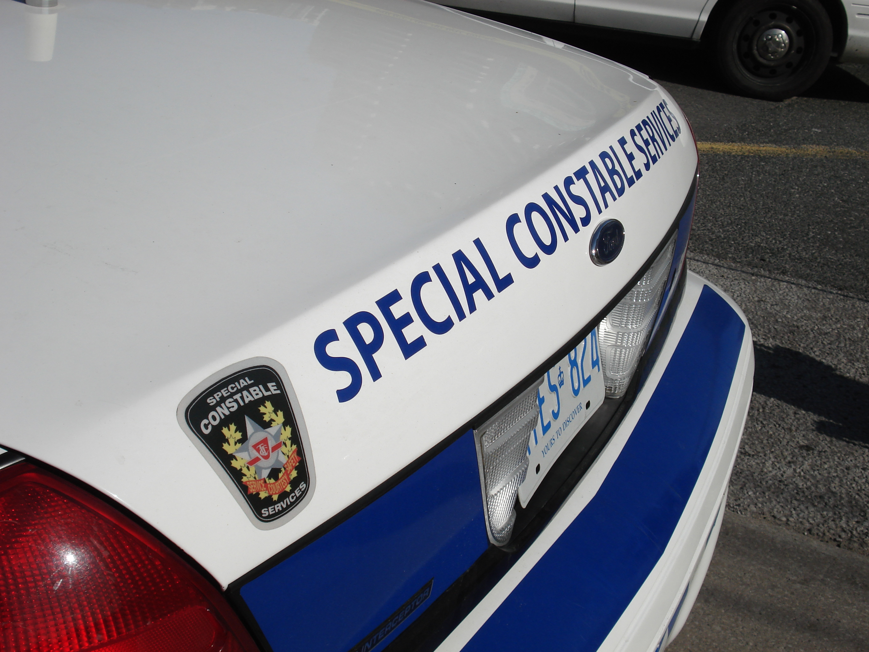 Toronto Transit Commission Special Constable Vehicle